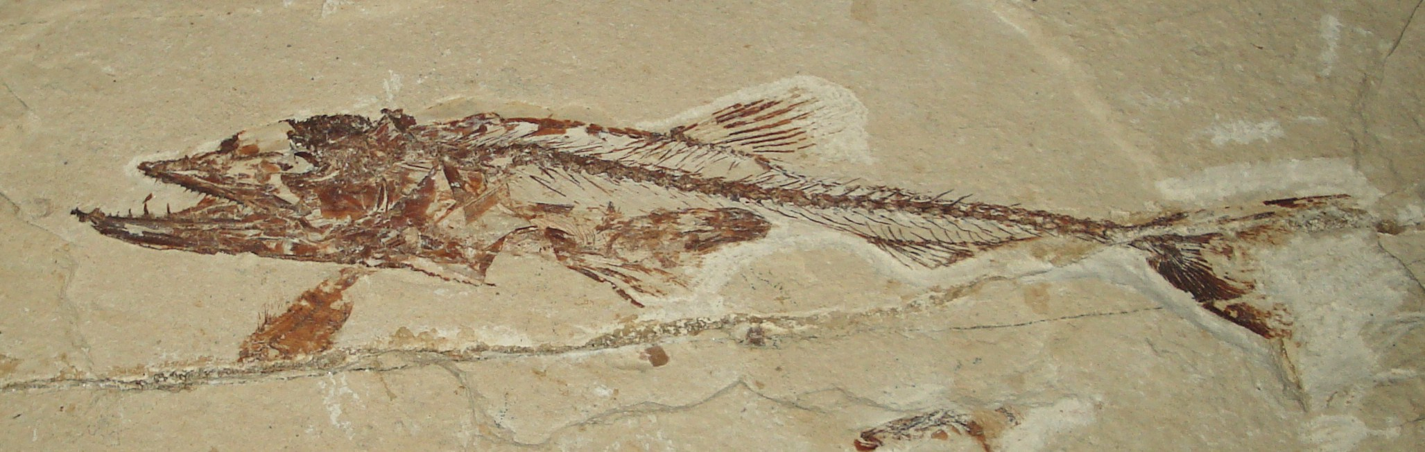 Fossil of Eurypholis boissieri, an extinct fish. Museo di storia naturale Milano